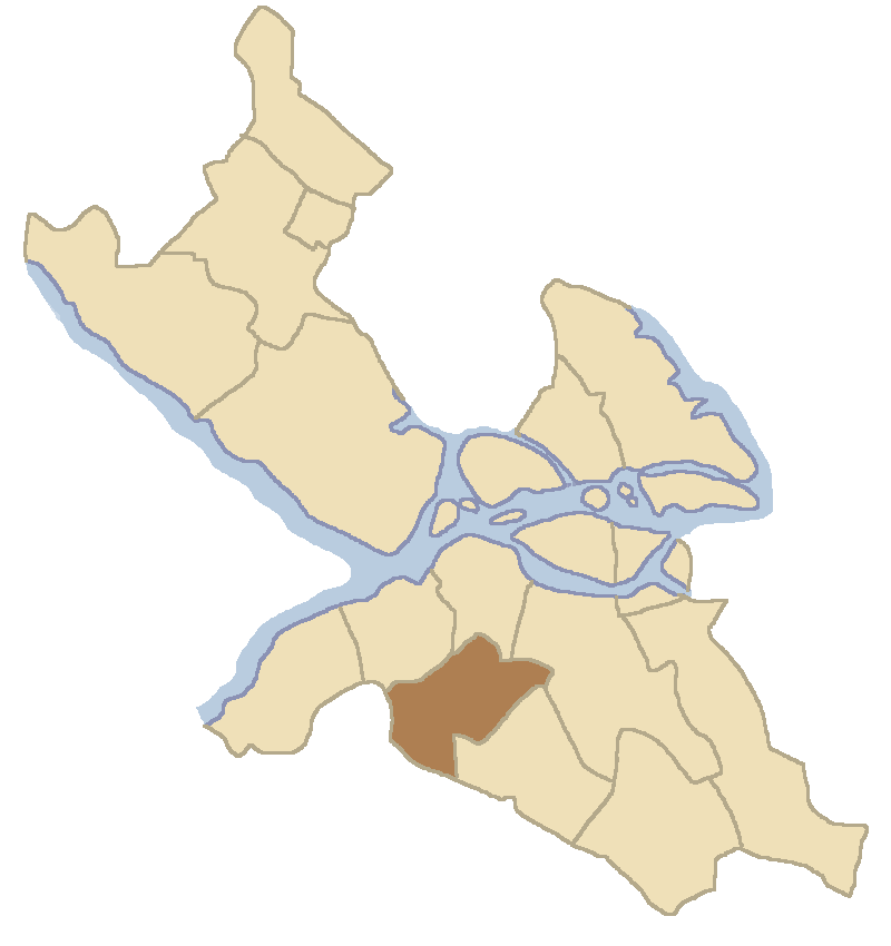 Map showing the location of the borough of Älvsjö with the borders used between 1998 and 2006.